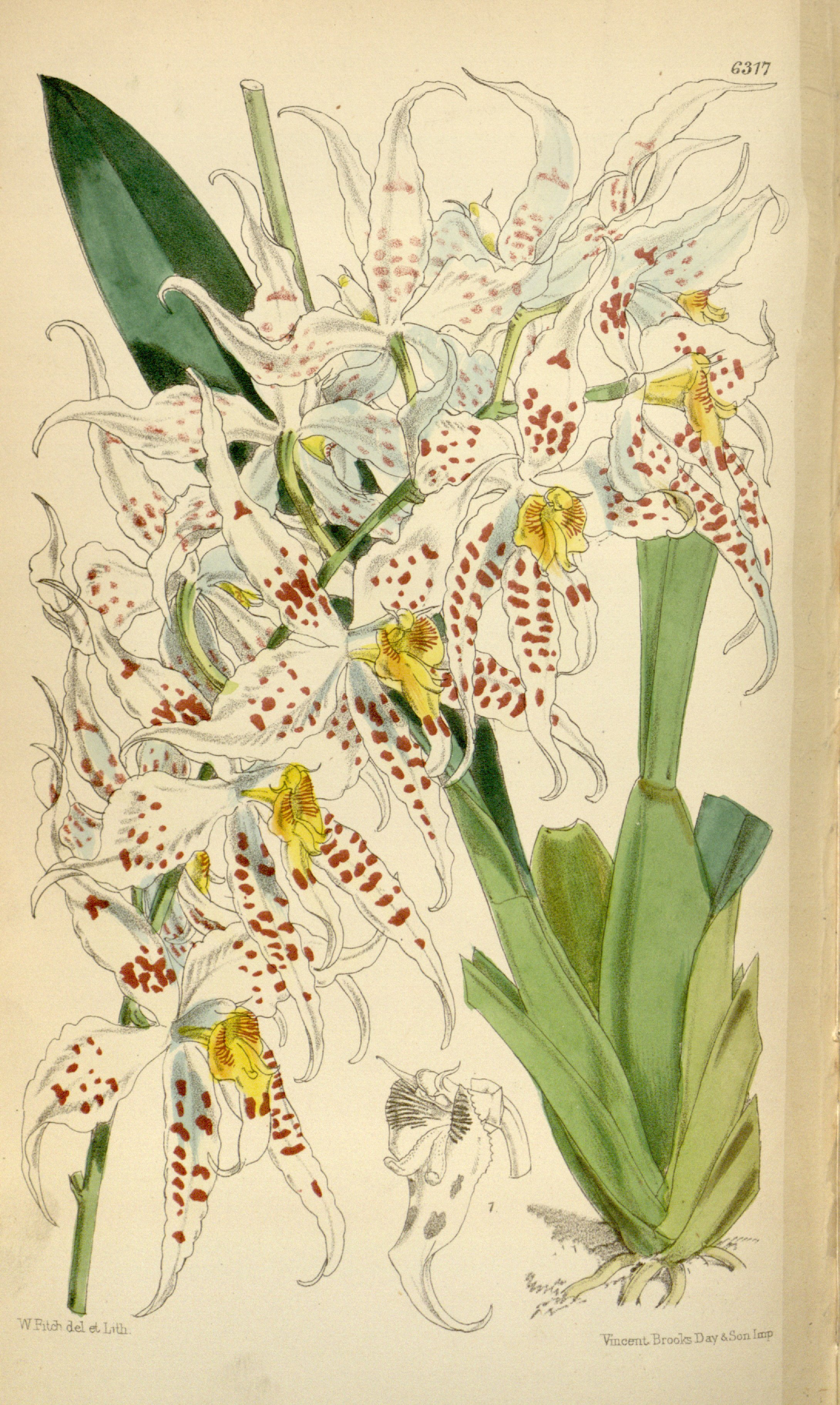 Illustration of Odontoglossum cirrhosum